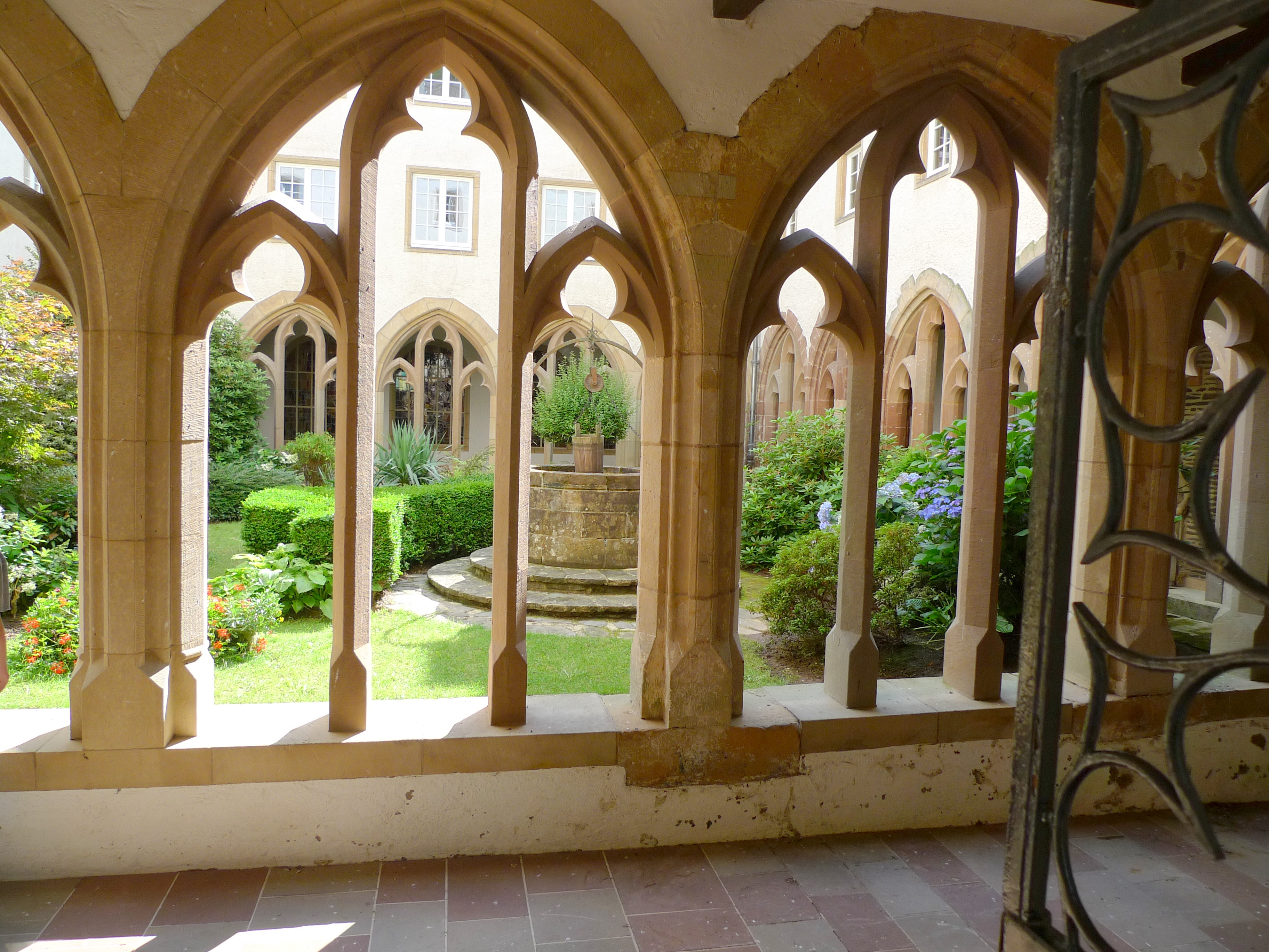 The courtyard of the Trinitarian cloister in Vianden